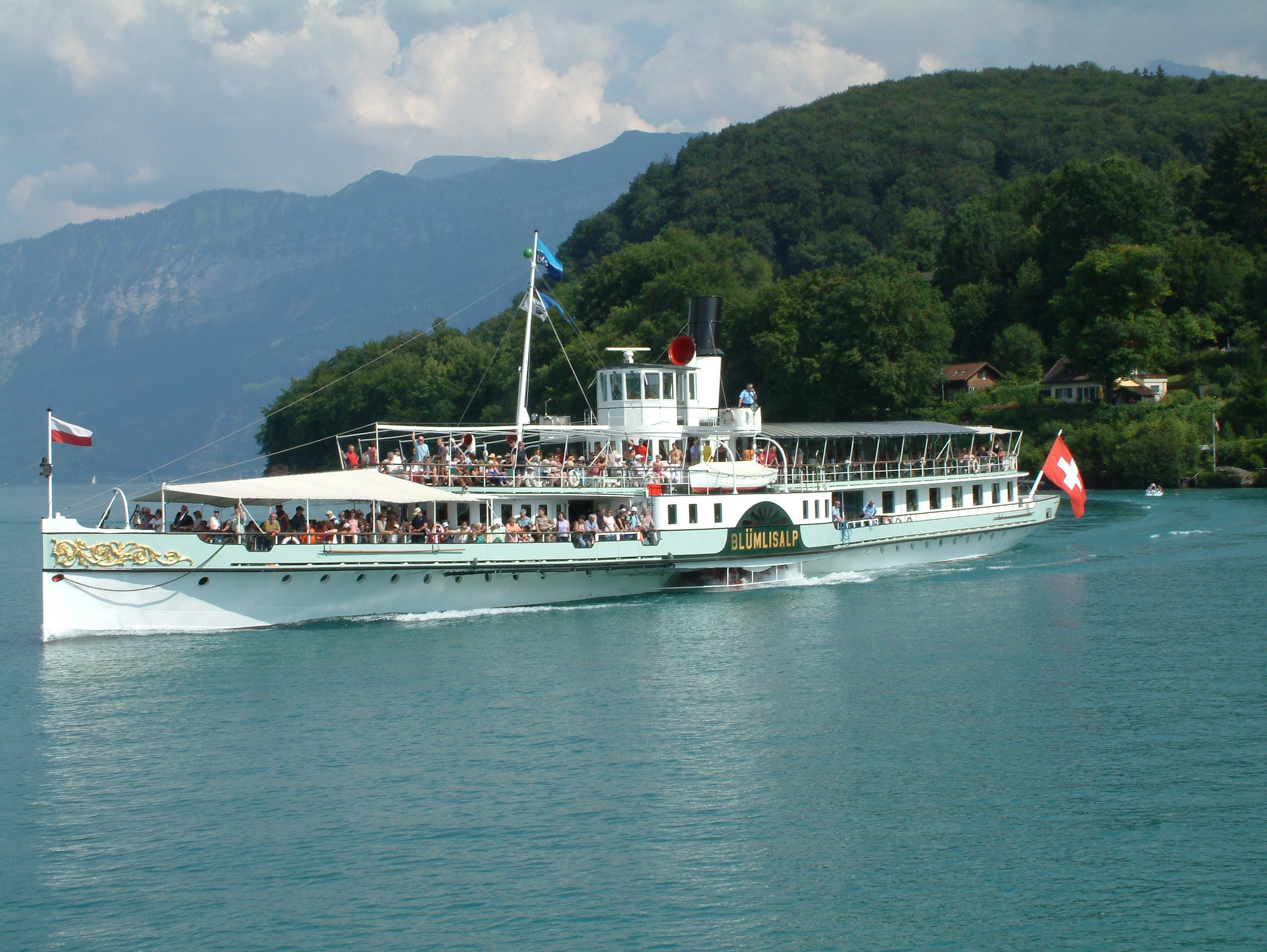 Steamboat "Bluemlisalp" on Lake Thun at Spiez.